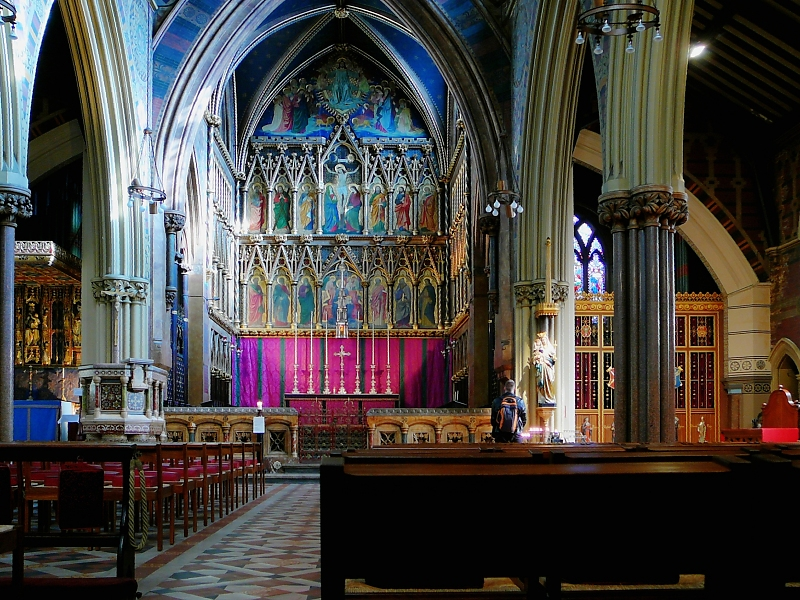 Interior of All Saints church, Margaret Street. The image was taken with a Panasonic Lumix DMC-TZ1.